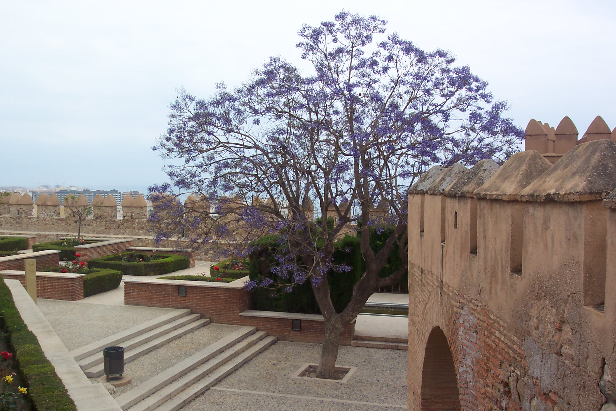 A tree with blue foliage in the Alcazaba in Almería in southern Spain.